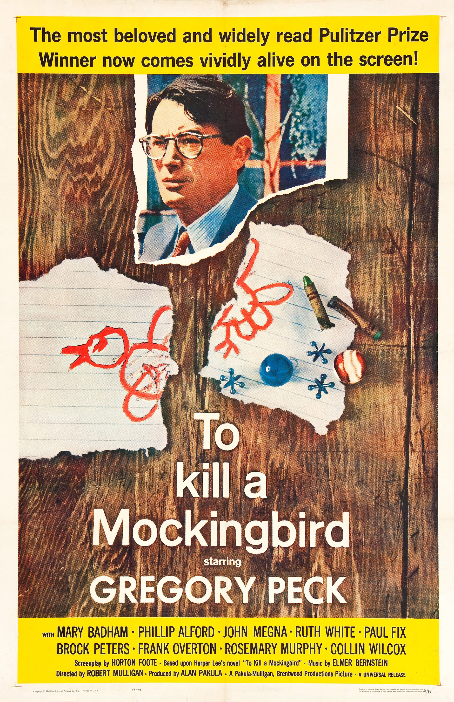 Poster for the US theatrical release of the 1962 film To Kill a Mockingbird, an adaptation of Harper Lee's 1960 novel of the same name, with actor Gregory Peck.